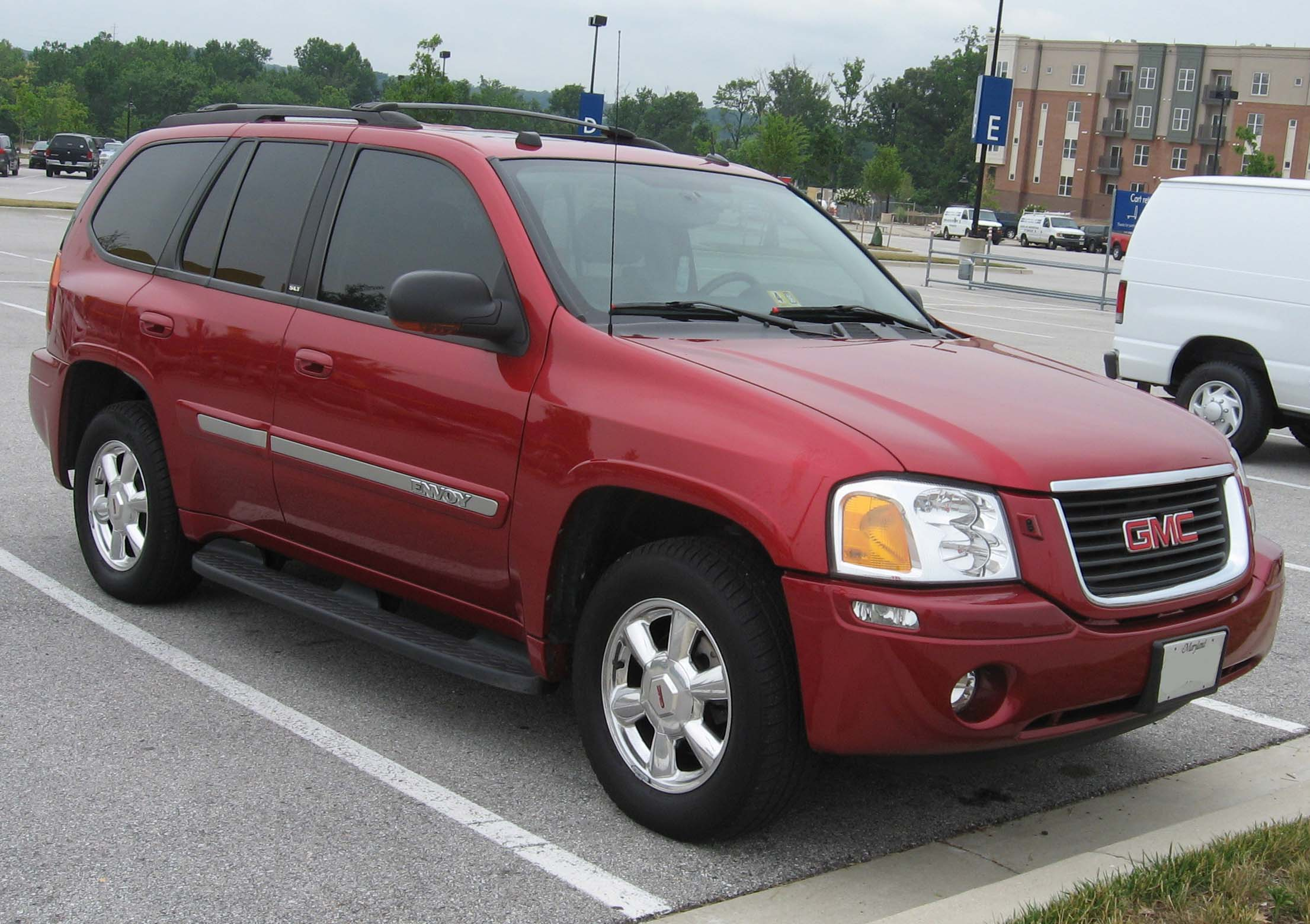 2002-2007 GMC Envoy photographed in USA.